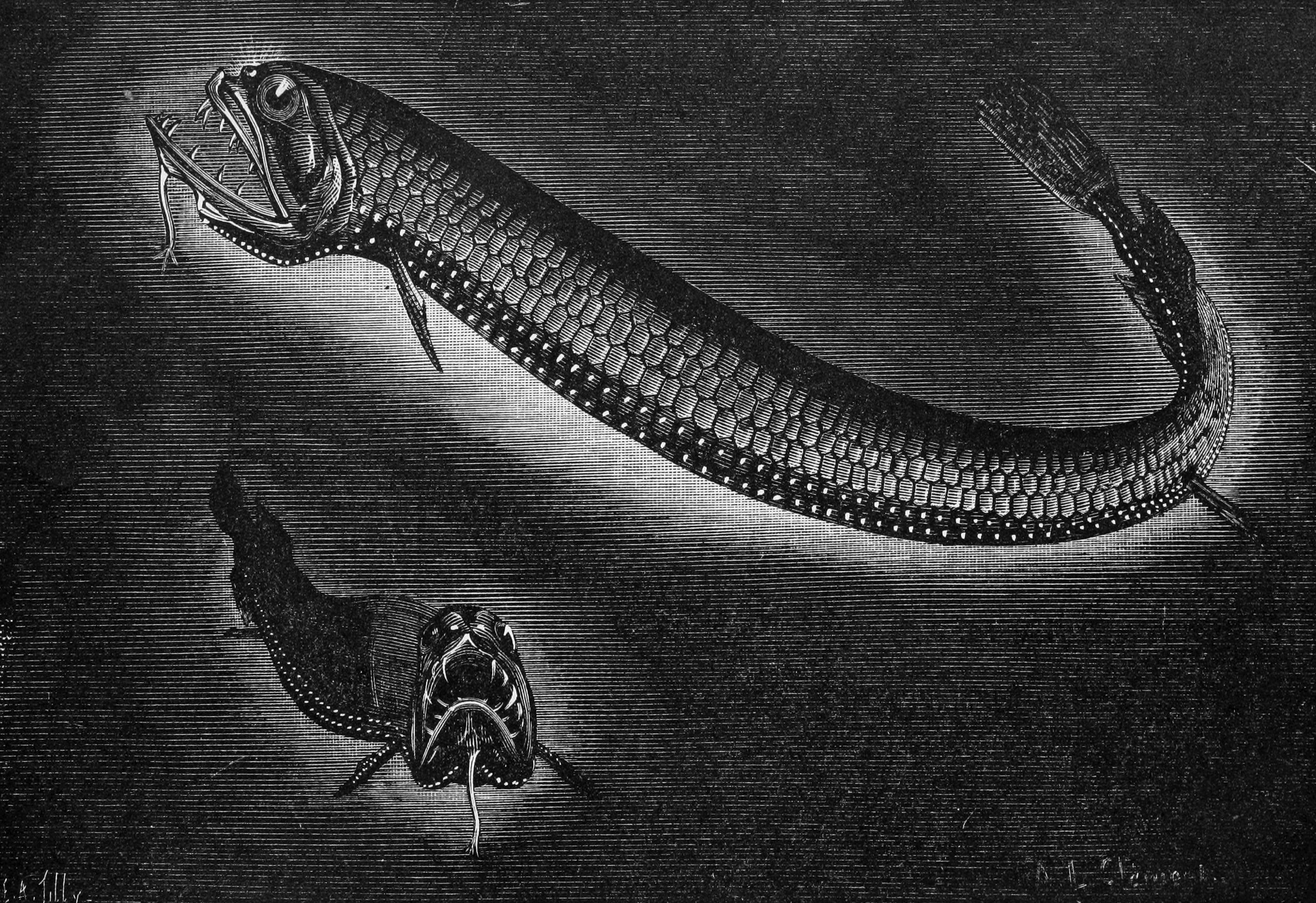 Stomias boa